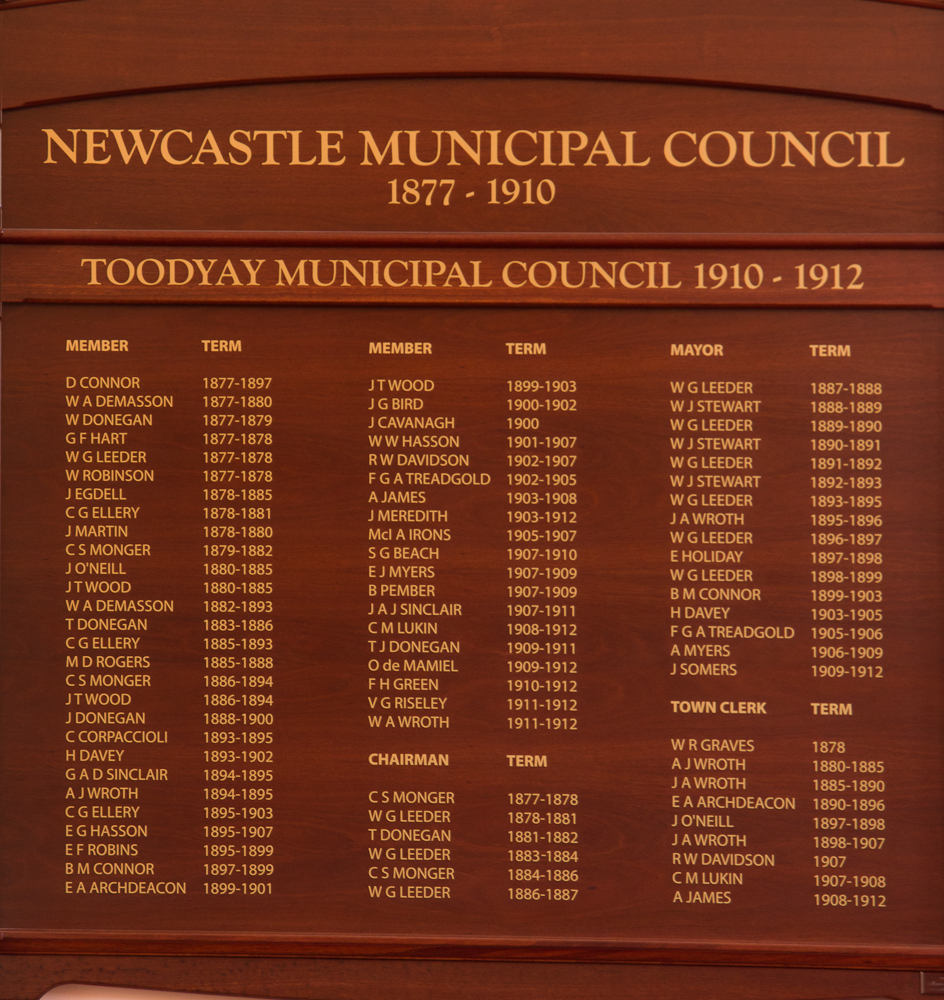 Newcastle municiple council honor board